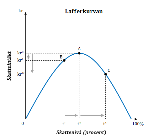 The Laffer curve